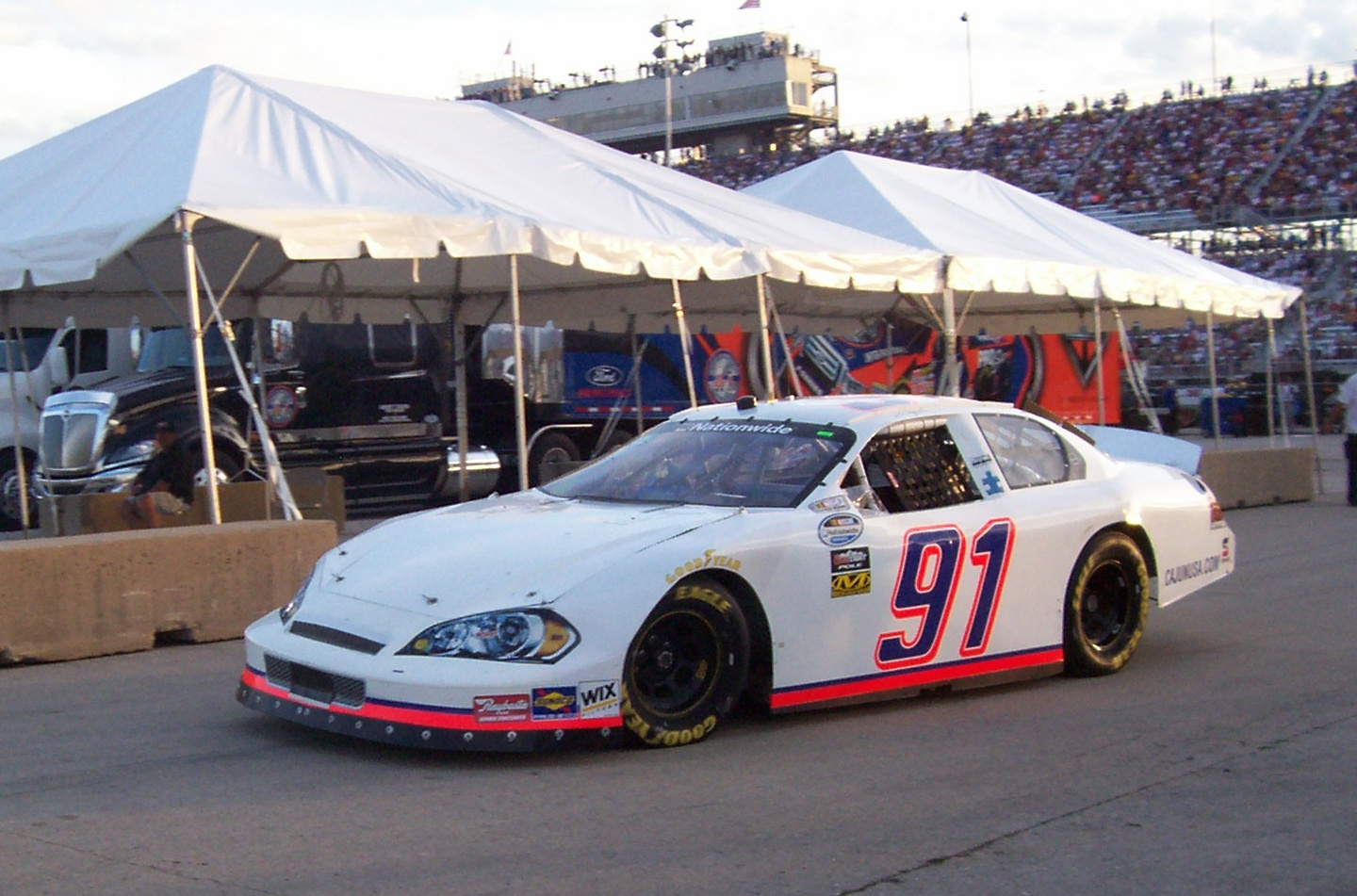 NASCAR driver Terry Cooks Chevrolet at the 2009 Northern 250 Nationwide Series race at the Milwaukee Mile. He pulled in the pits (pictured) after running only a few laps.